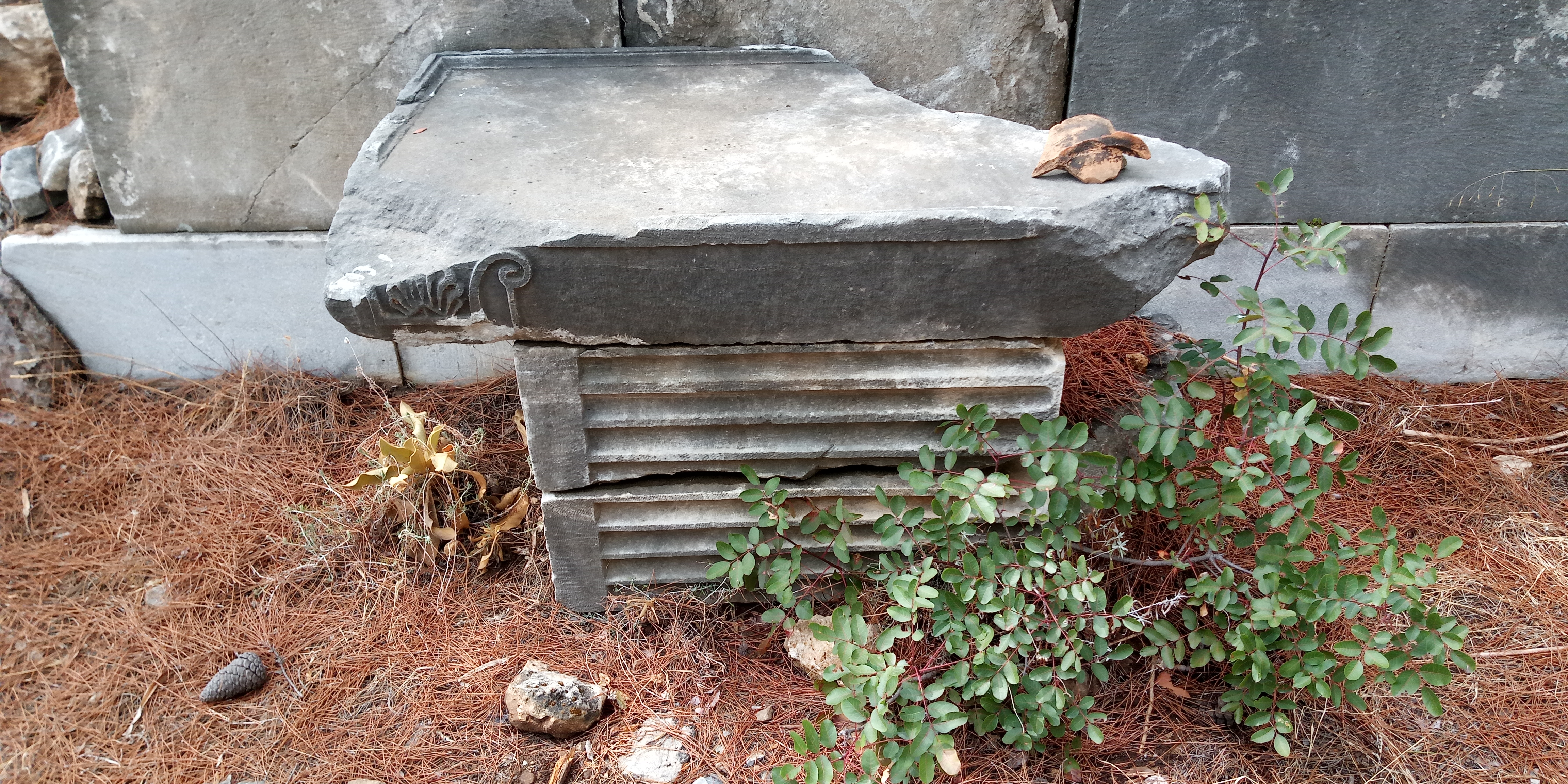 Base at the west end of the sanctuary of Demeter Malophoros, Priene